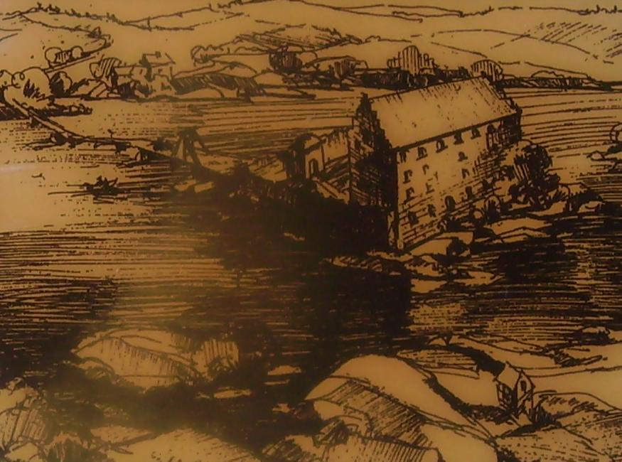 Photo by Harri Blomberg.